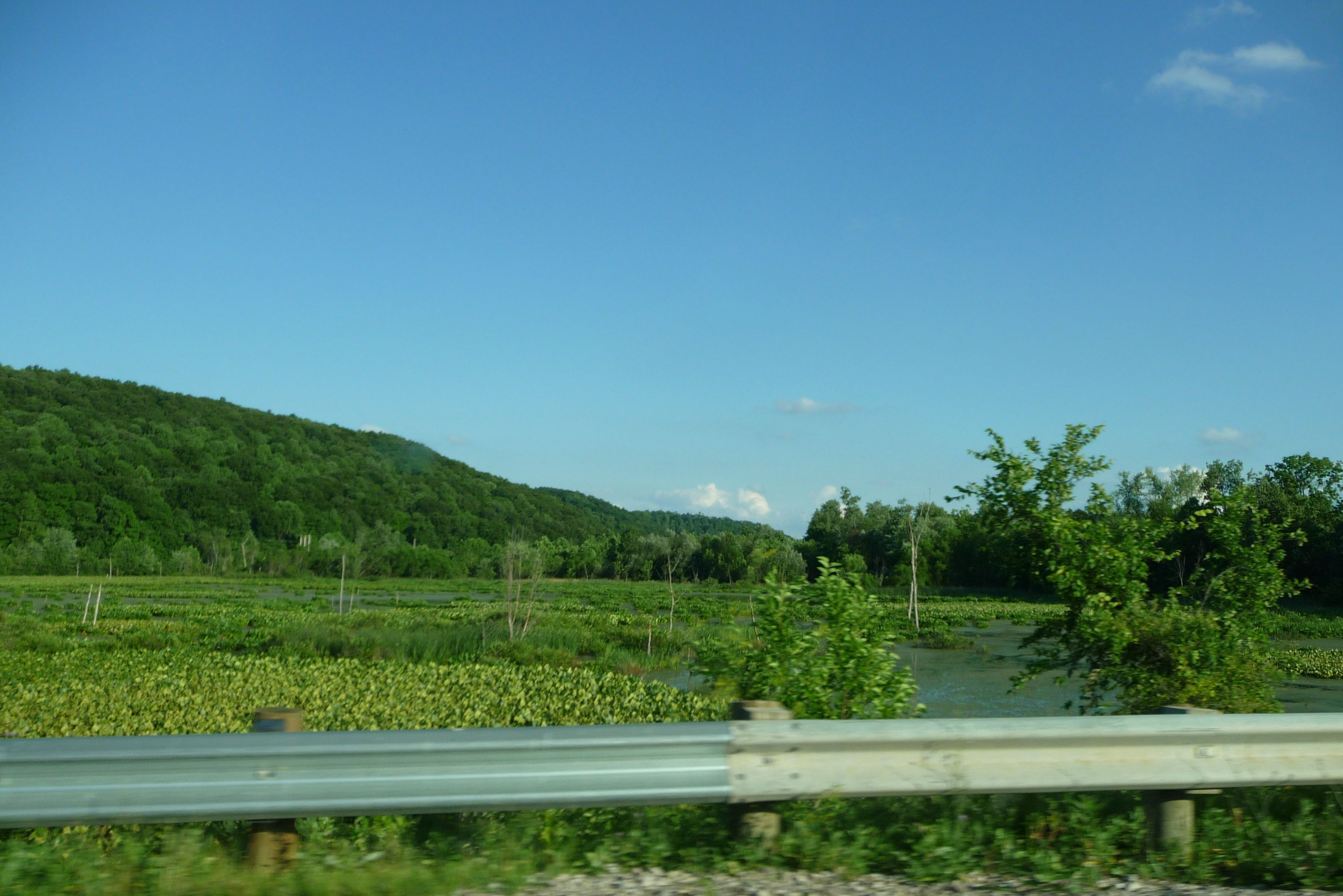 Open land in the Great Killbuck Swamp of southwestern Franklin Township, Wayne County, Ohio, United States.